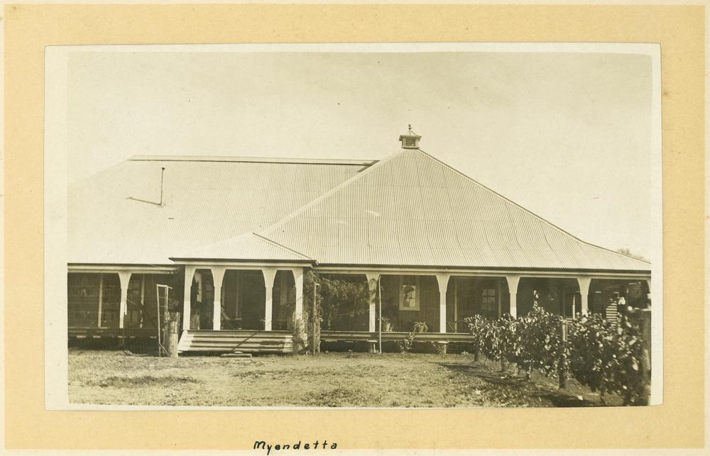 Myendetta Homestead near Charleville circa 1915